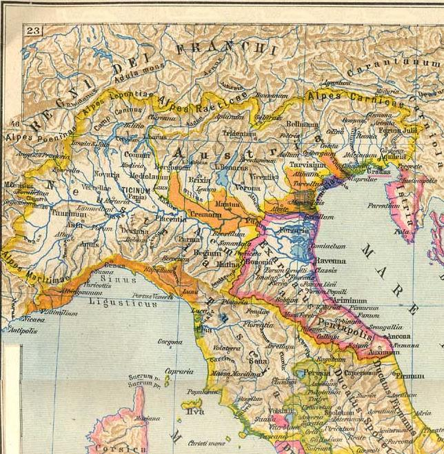 Map Agilulf - Rothari / Lombard Kingdom